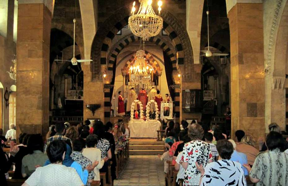 Cathedral of Our Mother of Reliefs, Aleppo